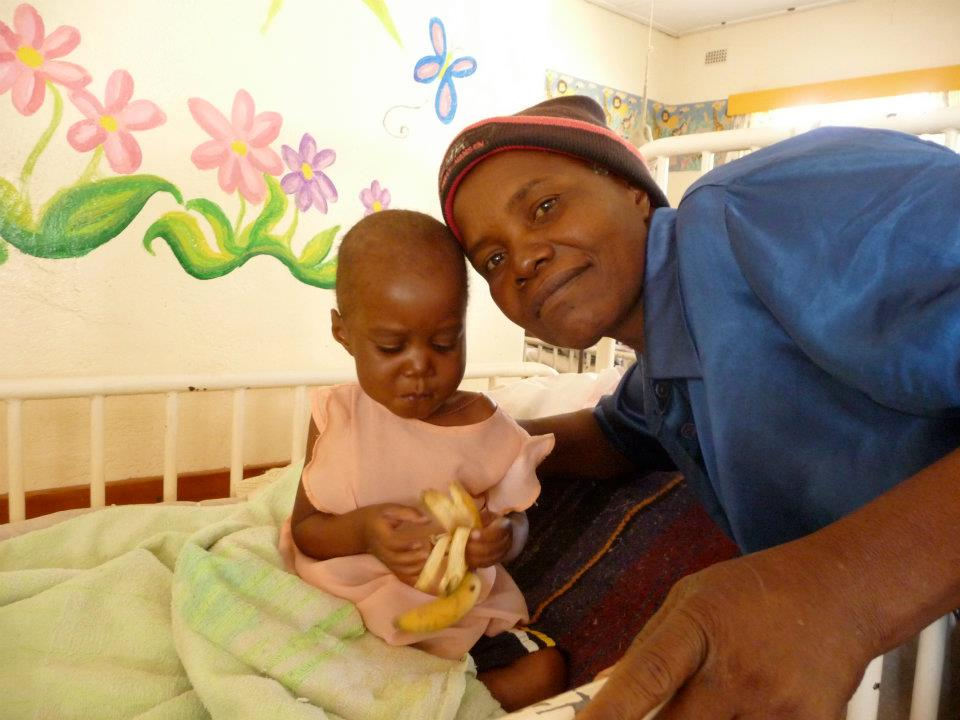 Patient and Child at Karanda Mission Hospital in Zimbabwe